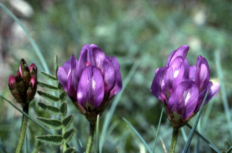 Oxytropis sericea - Flower